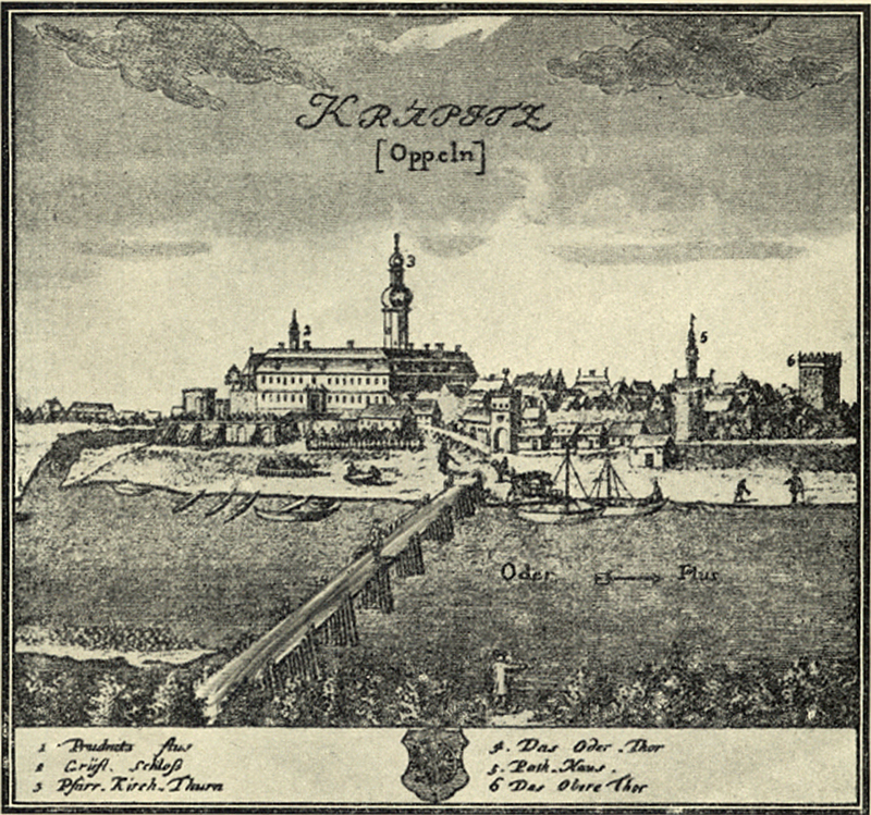 Krapkowice, Poland (German: Krappitz) in the 18th century